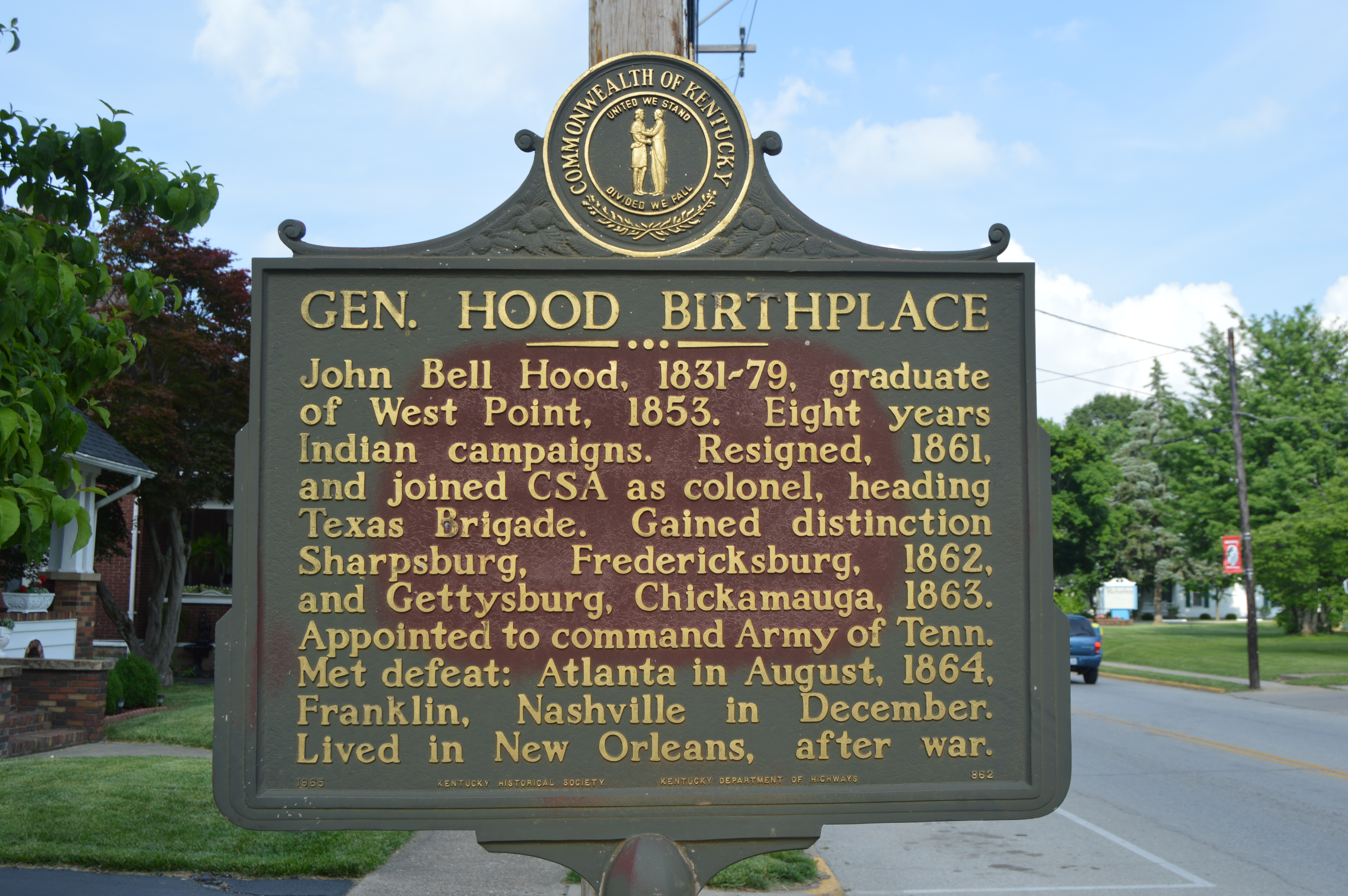 Historical marker in front of the birthplace of John Bell Hood, located at 82 E. Main Street (U.S. Route 60) in Owingsville, Kentucky, United States.